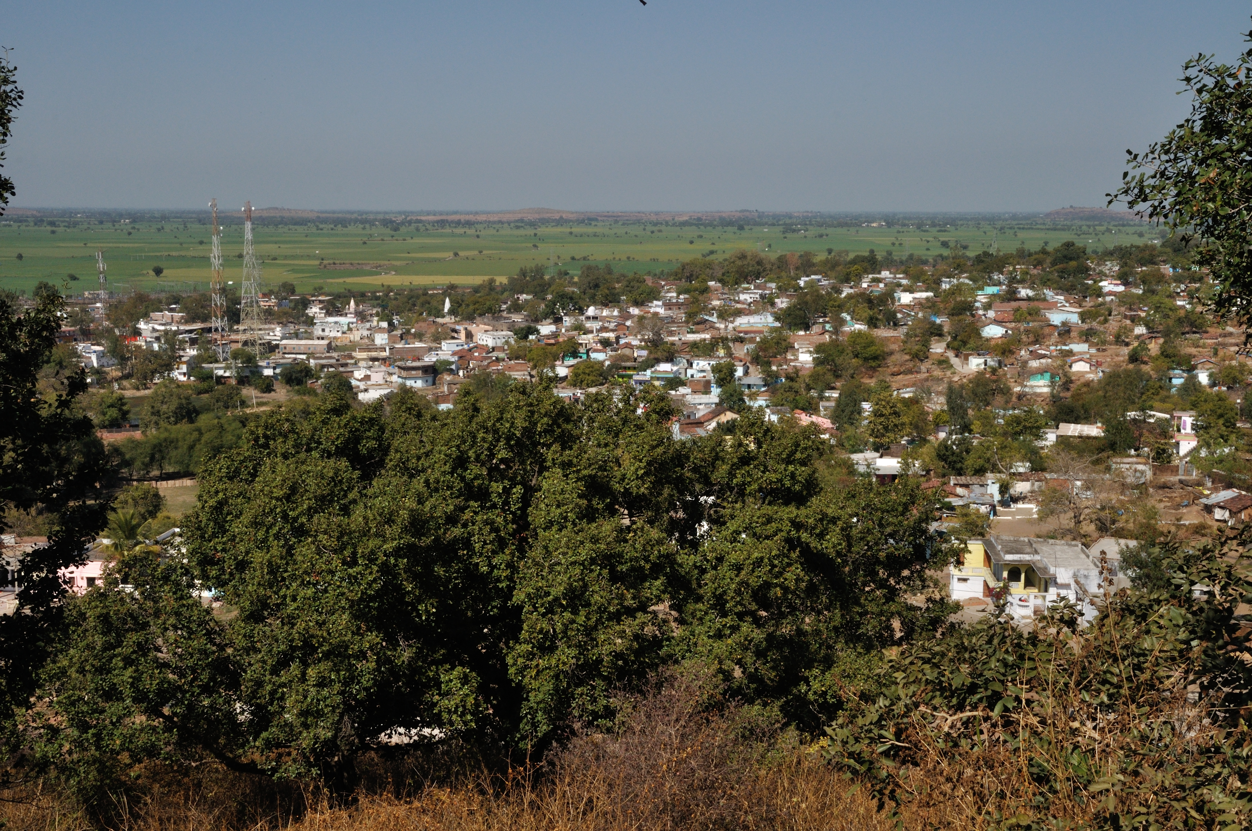 Photographed at the Raisen district of Madhya Pradesh, India.